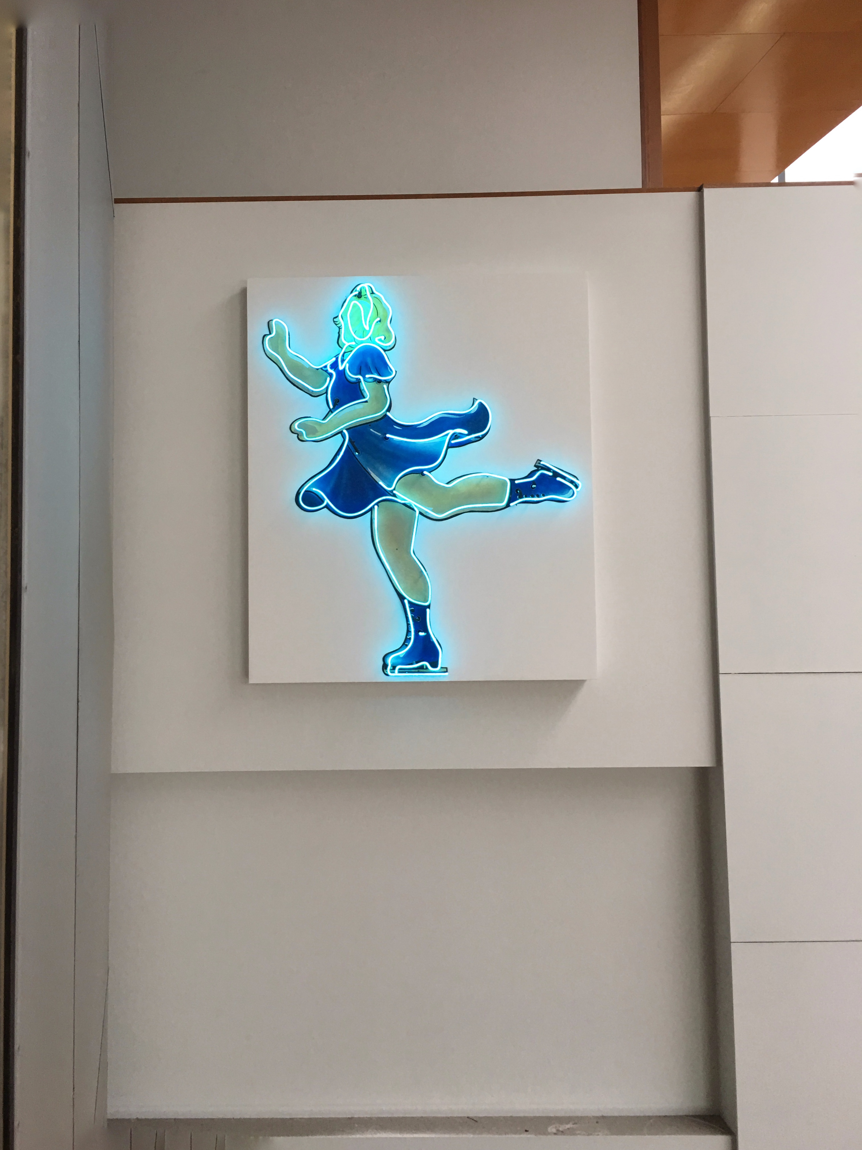 St Moritz Skating Girl 1939 installed at St Kilda Town Hall 2018.